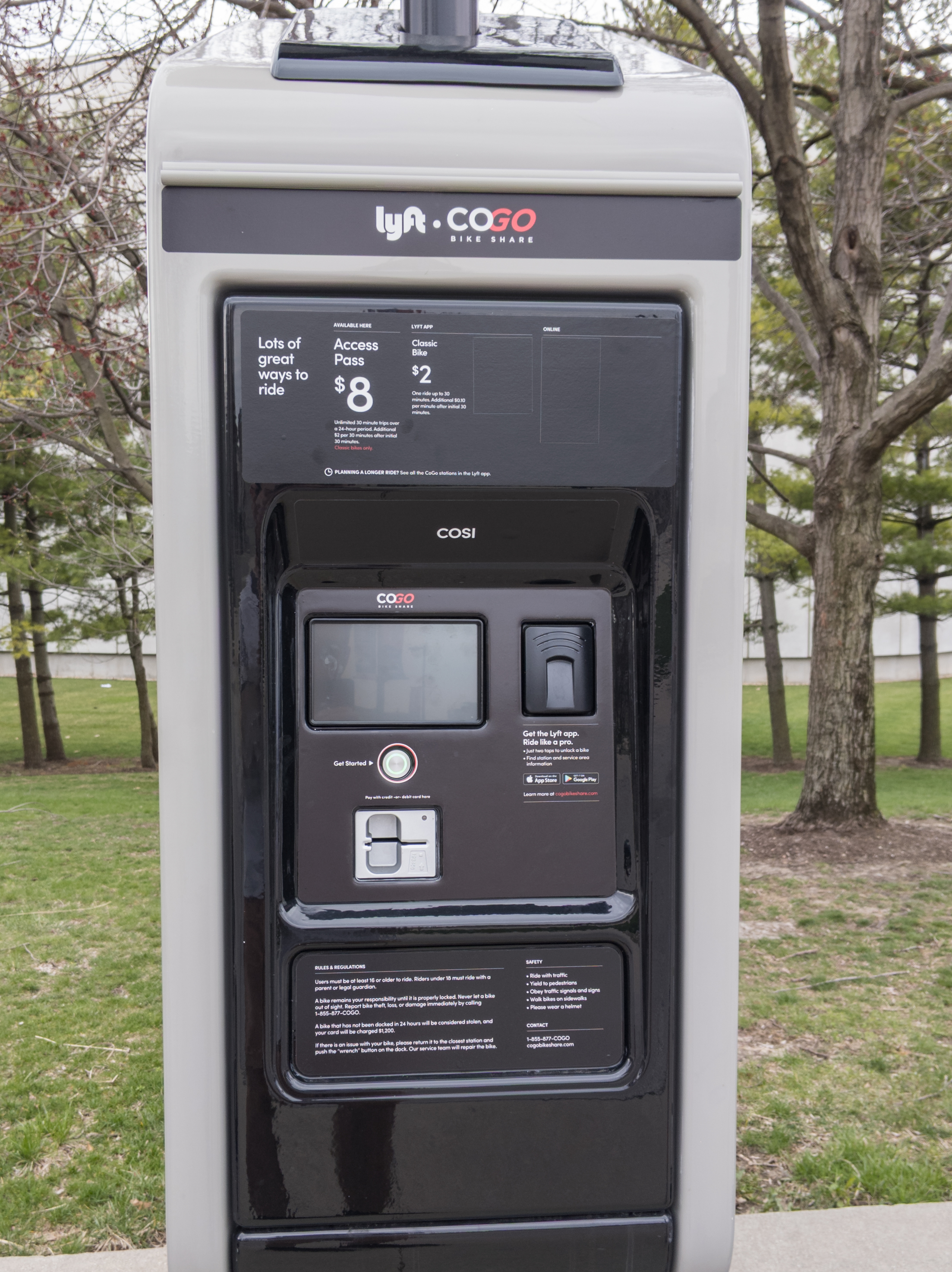 CoGo station by COSI, Columbus, Ohio.